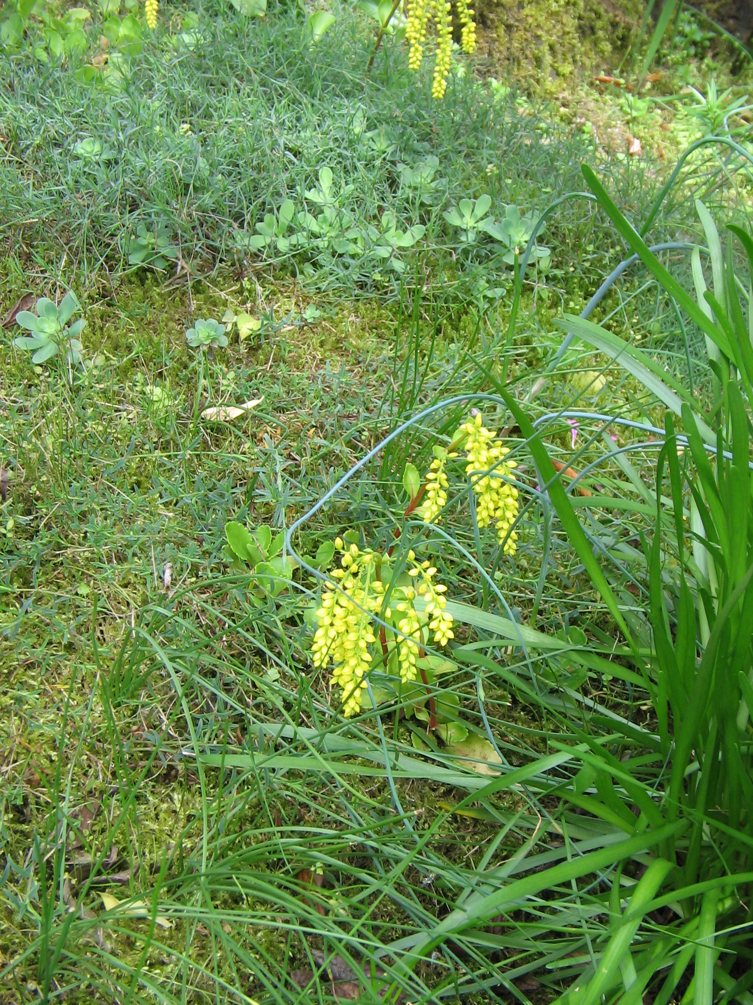 Umbilicus oppositifolius (Syn. Chiastophyllum oppositifolium)